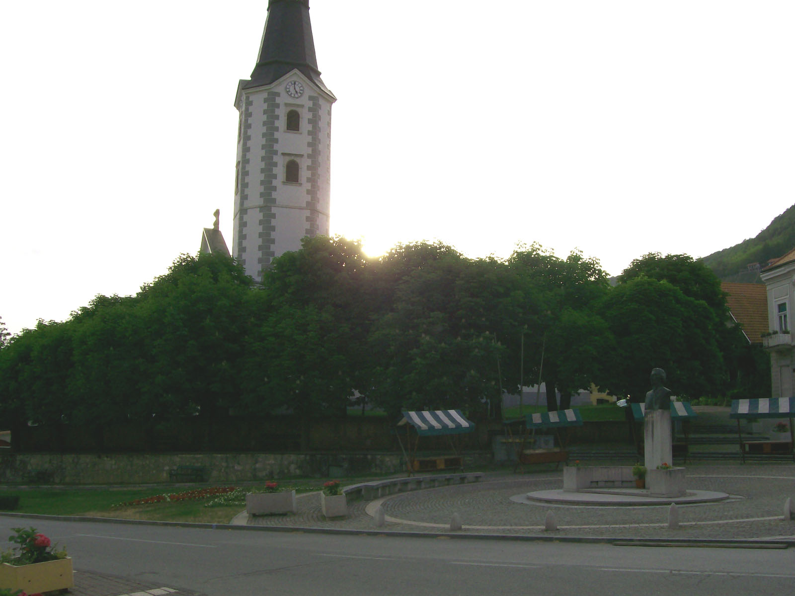 Klanjec, Croatia